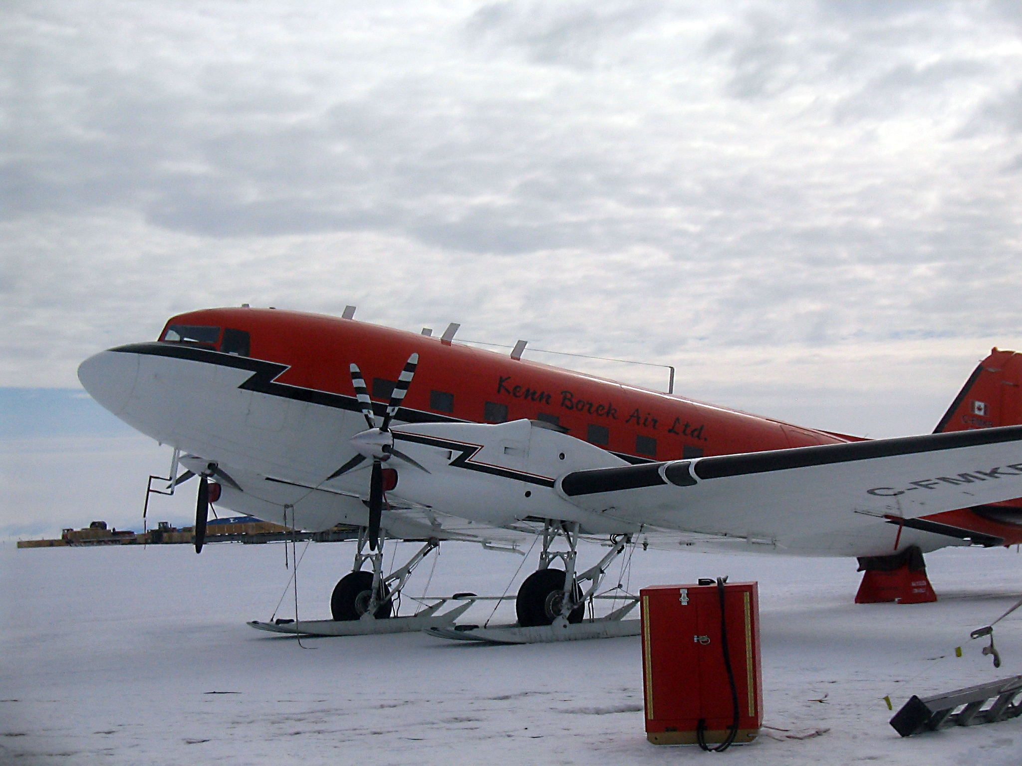 A ski equipped Basler BT-67 operated by Kenn Borek Air for the United States Antarctic Program at Williams Field during the 2006-2007 season. The rear landing gear has been temporarily removed from the aircraft for repair.